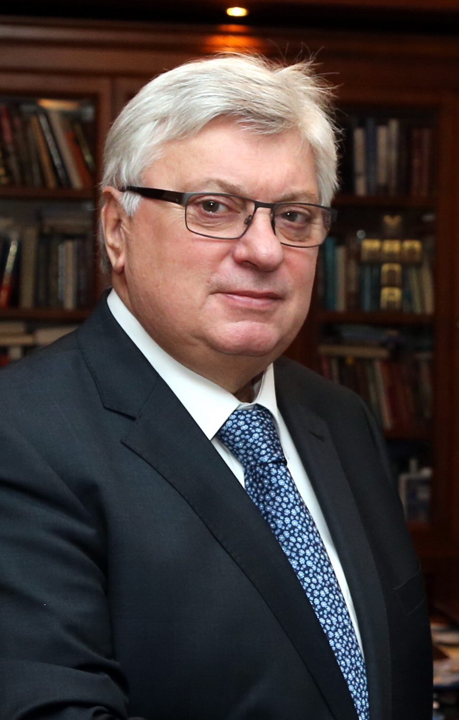 MGIMO Rector Anatoly Torkunov